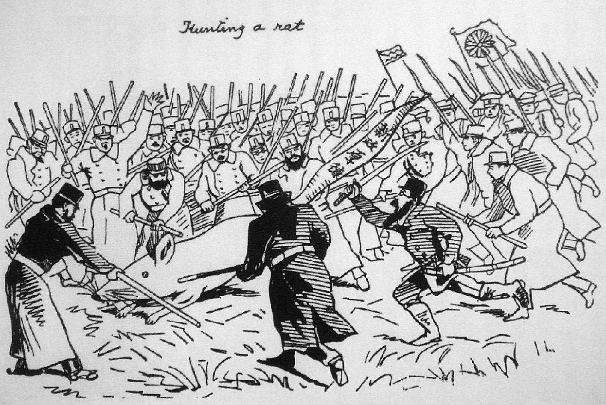 Satirical drawing of the Satsuma rebellion